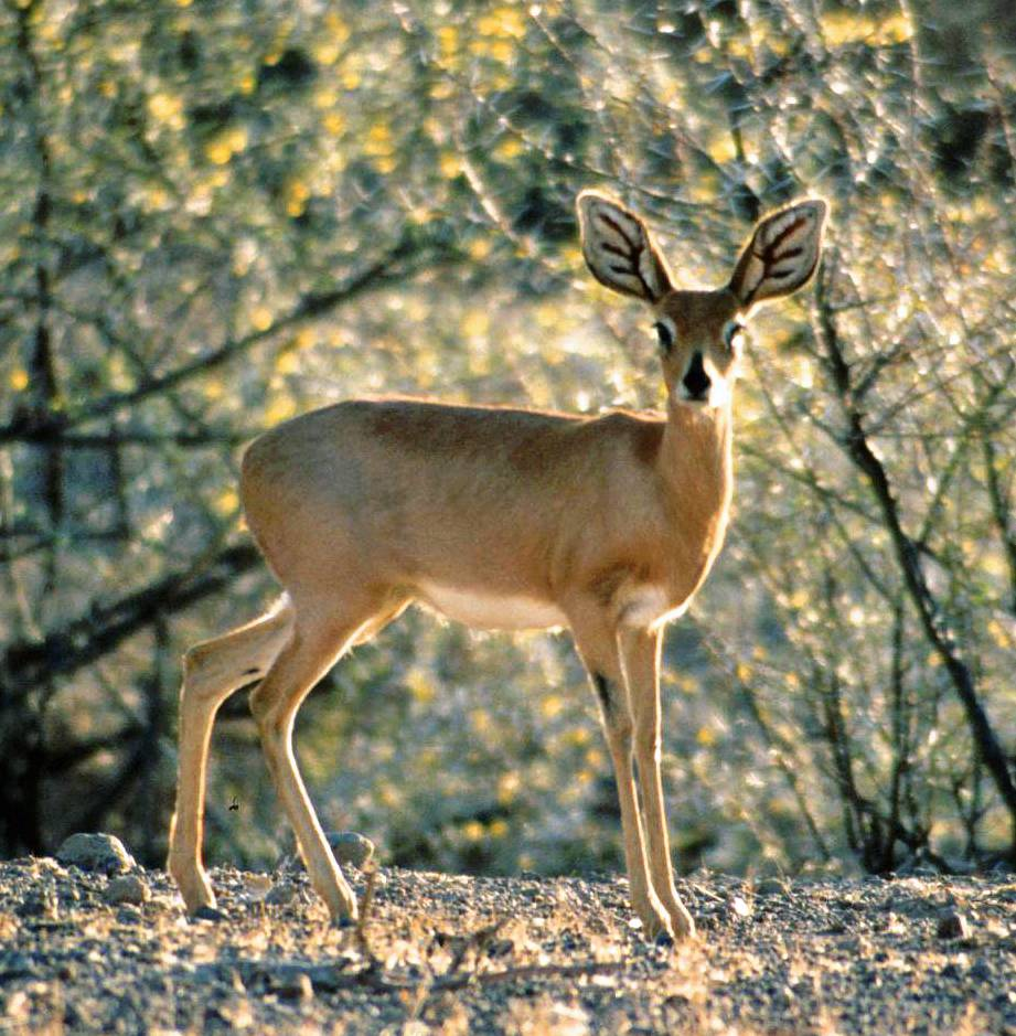 Steenbok (Raphicerus campestris), Hardap Dam, Namibia